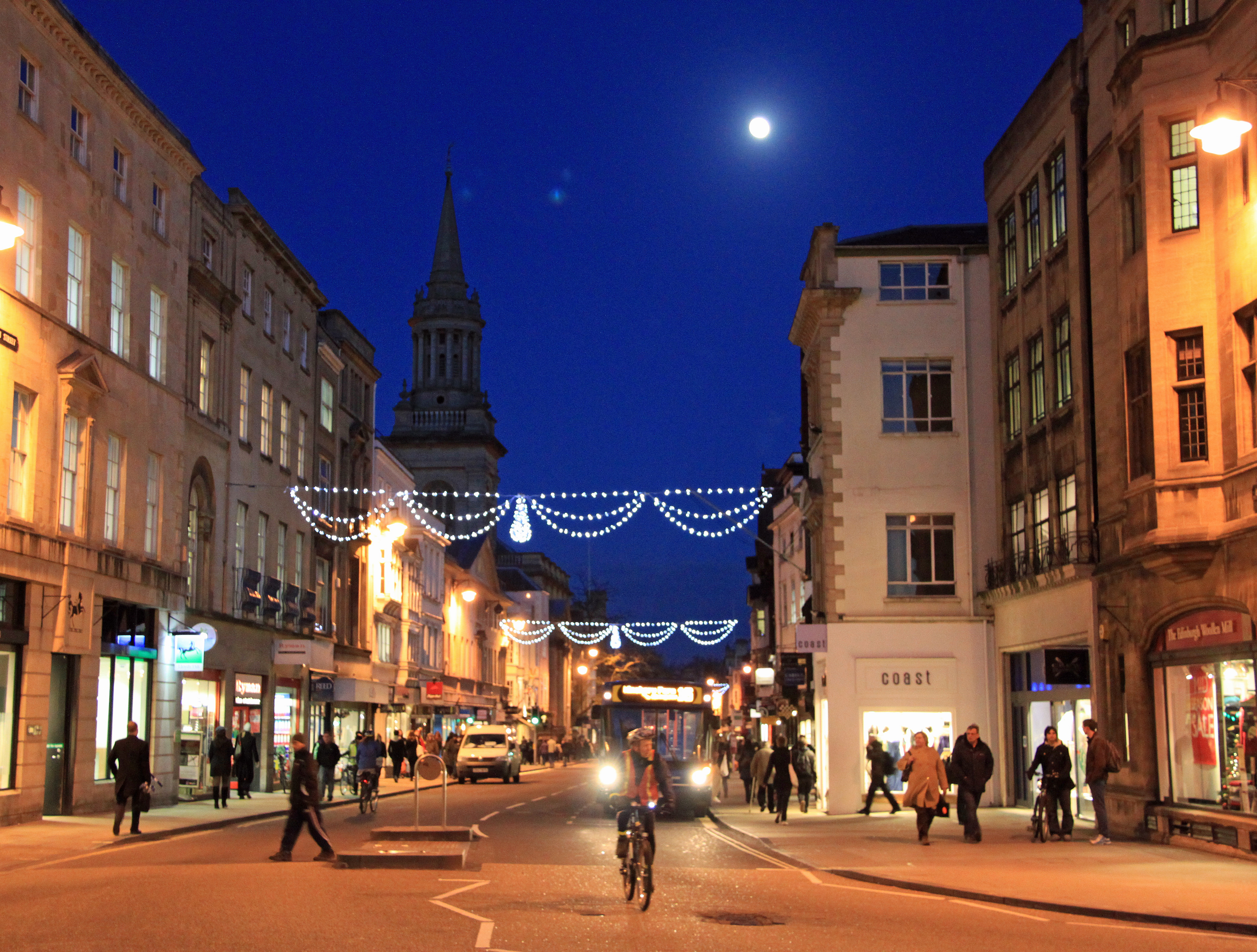 View east from Carfax along High Street, Oxford, at night